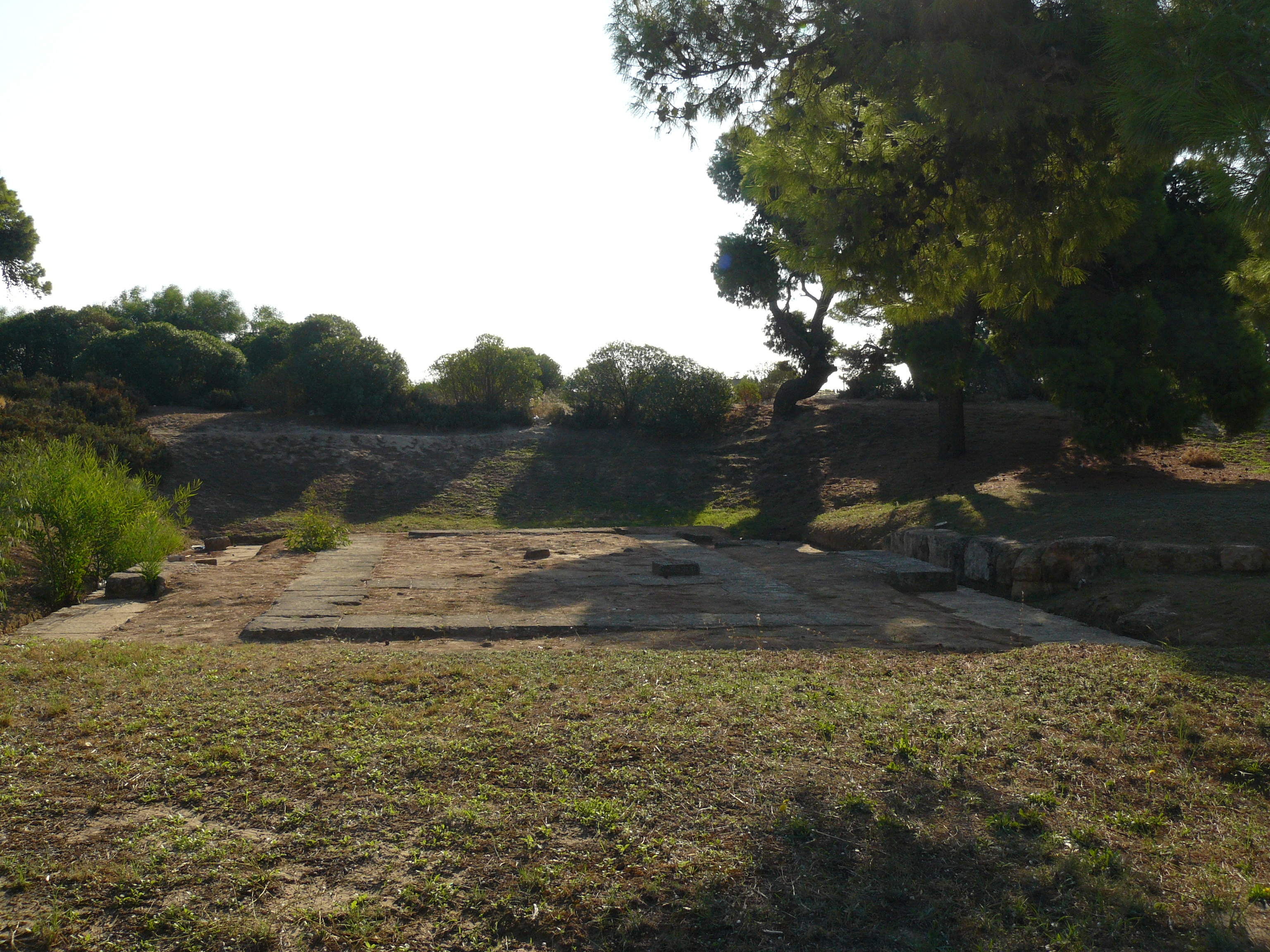 Temple of Artemis Tauropolos in Artemida (Loutsa).